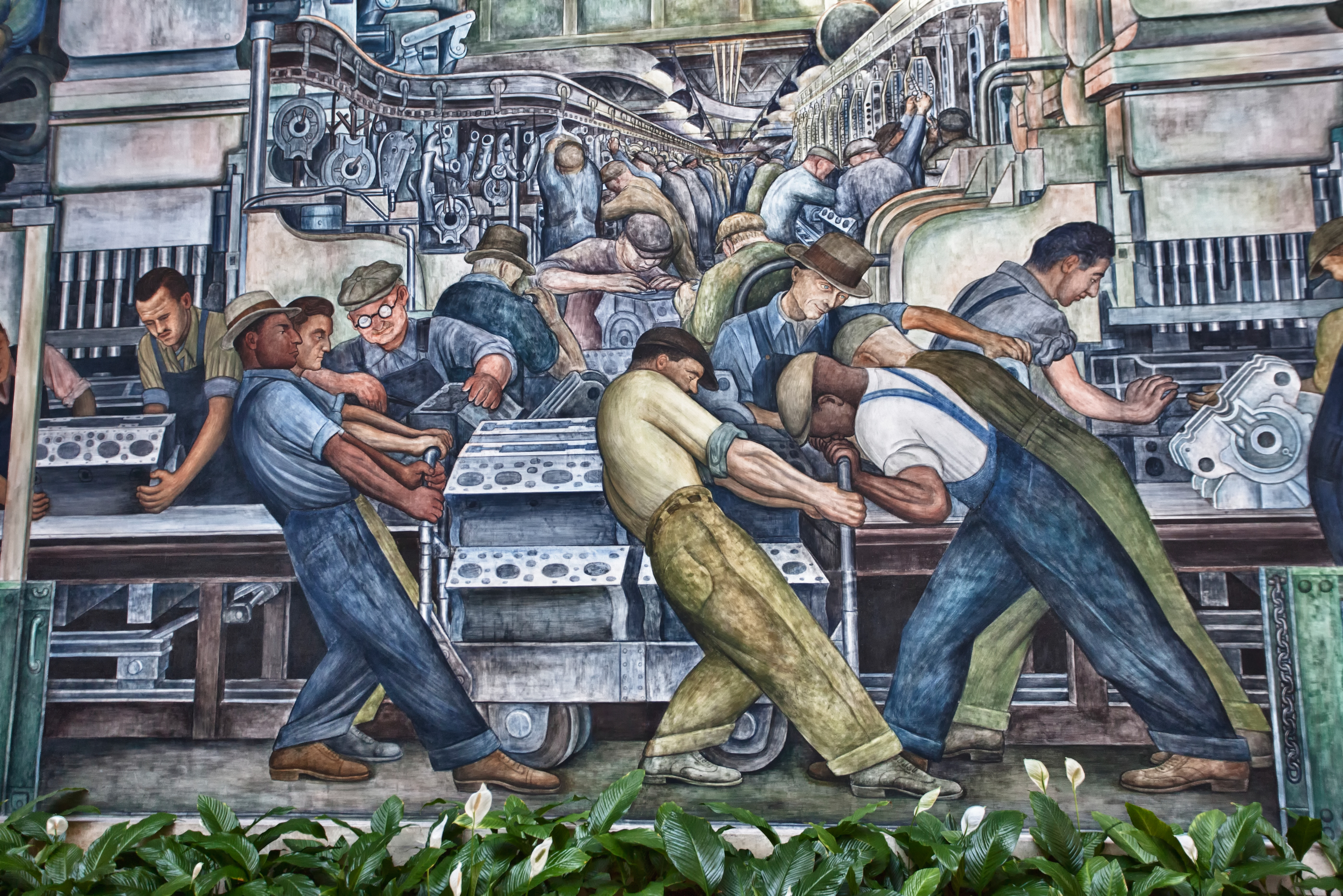 photo of a part of the Rivera Frescos at the DIA